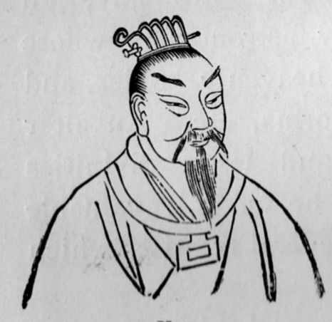 Emperor Yao, on of the mythical Five Sovereigns